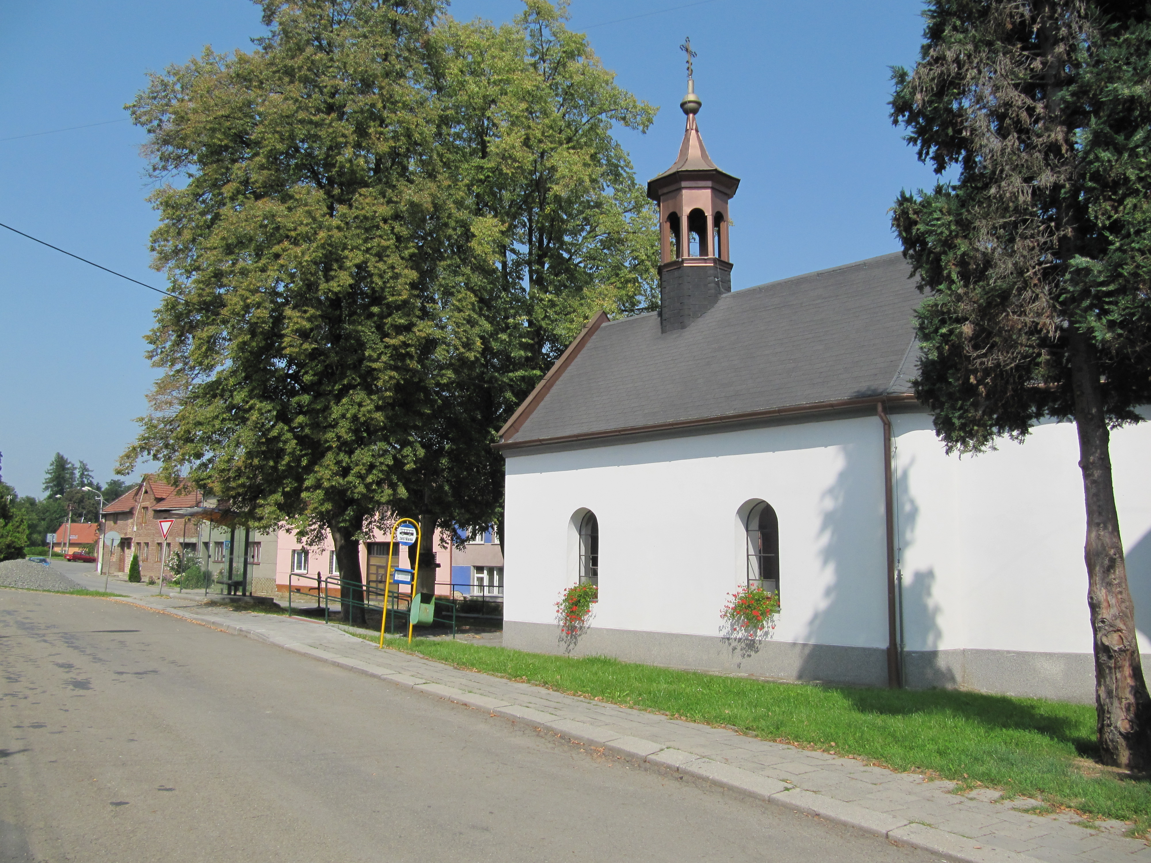 Přerov, Czech Republic, part Žeravice. Common with the chapel of St. John of Nepomuk. This photograph was taken within the scope of the third year of the 'Czech Municipalities Photographs' grant.